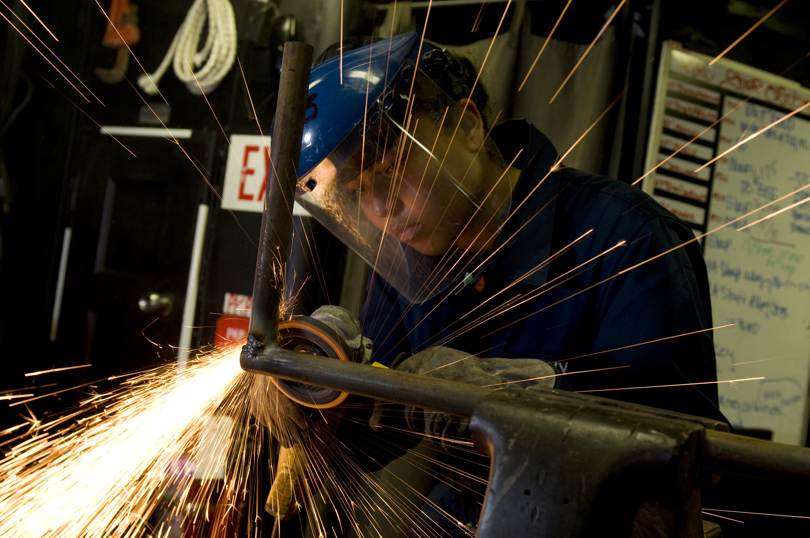 PACIFIC OCEAN (Sept. 24, 2011) Hull Technician Fireman Jessica Crosby, assigned to Engineering Department's R-1 Division, makes a hand rail aboard the Nimitz-class aircraft carrier USS Carl Vinson (CVN 70). Carl Vinson and Carrier Air Wing 17 are underway conducting operations off the coast of Southern California. (U.S. Navy photo by Mass Communication Specialist 3rd Class Timothy A. Hazel/Released)